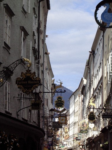 Getreidegasse